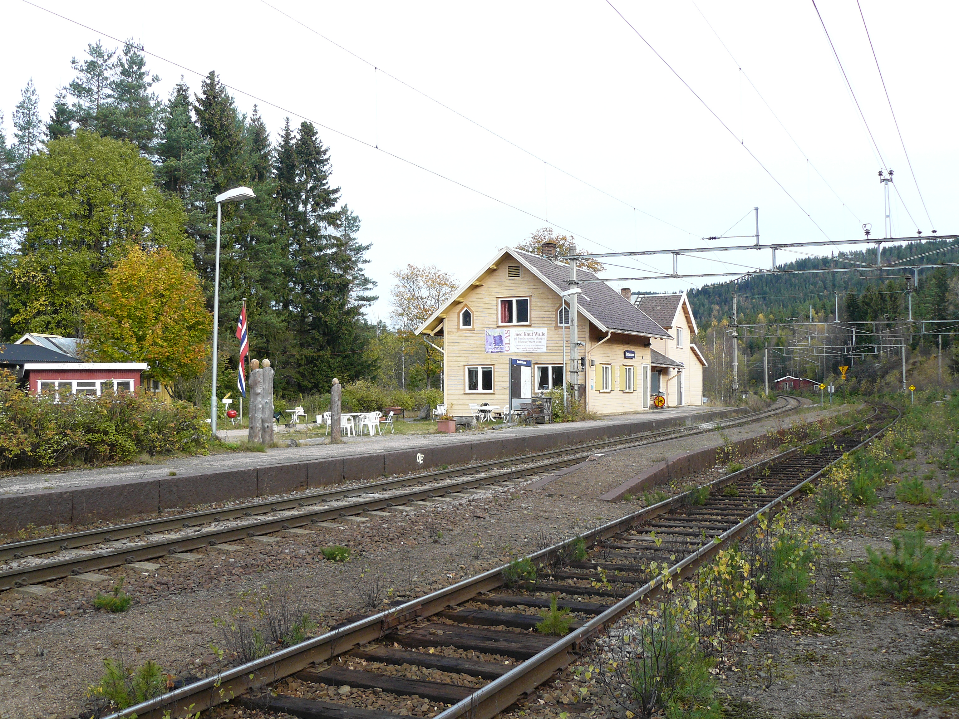 Sandermosen trainstation, Oslo